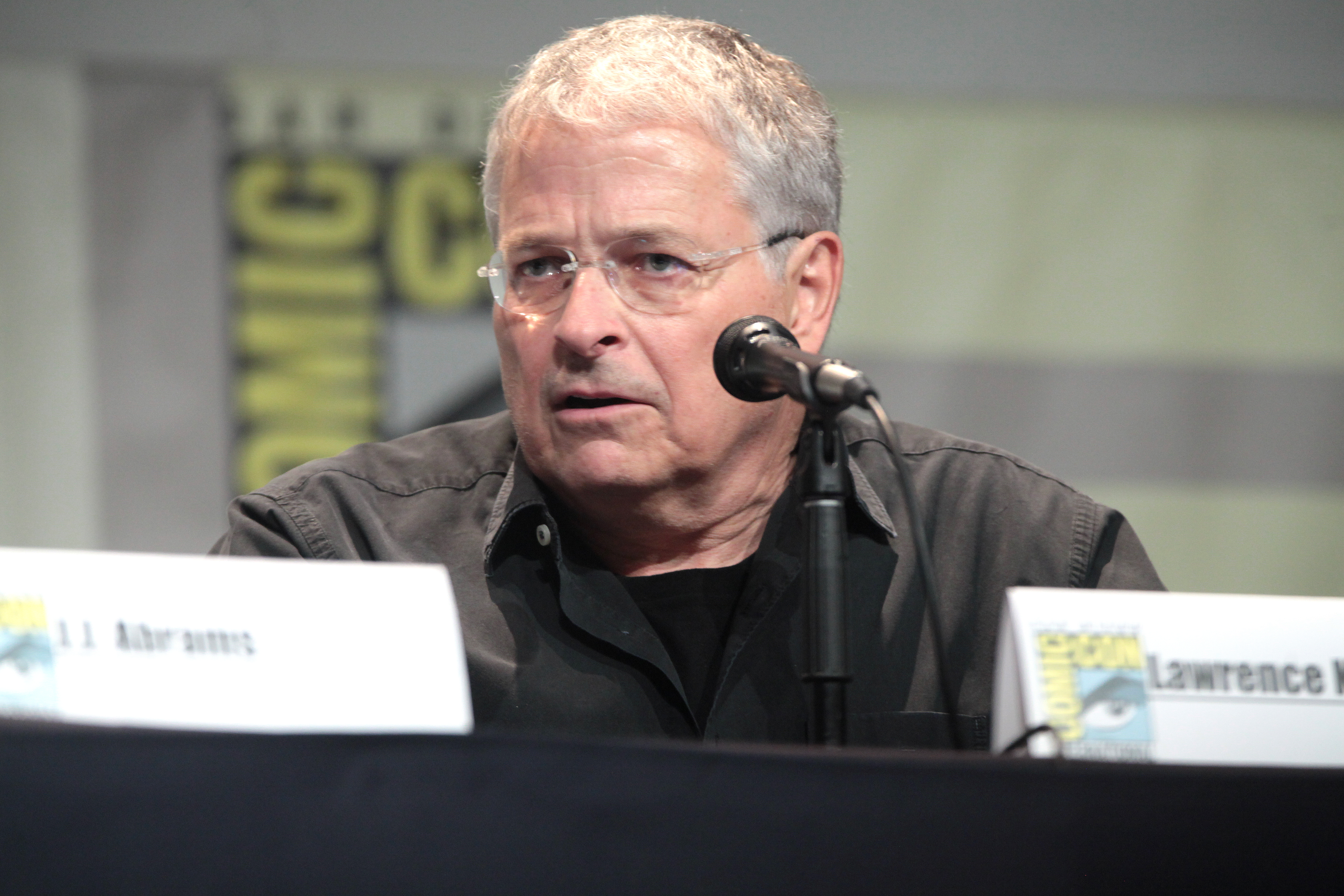 Lawrence Kasdan speaking at the 2015 San Diego Comic Con International, for "Star Wars: The Force Awakens", at the San Diego Convention Center in San Diego, California.